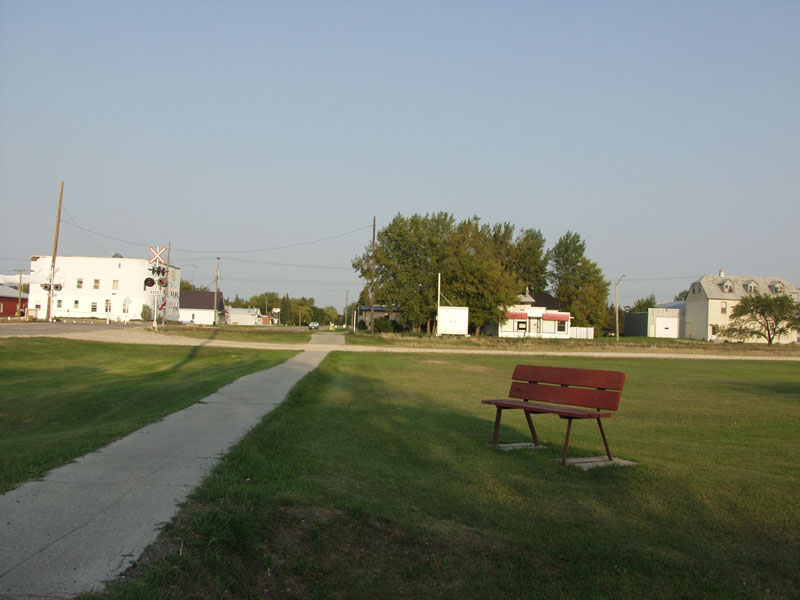 Dominion City, Manitoba. From